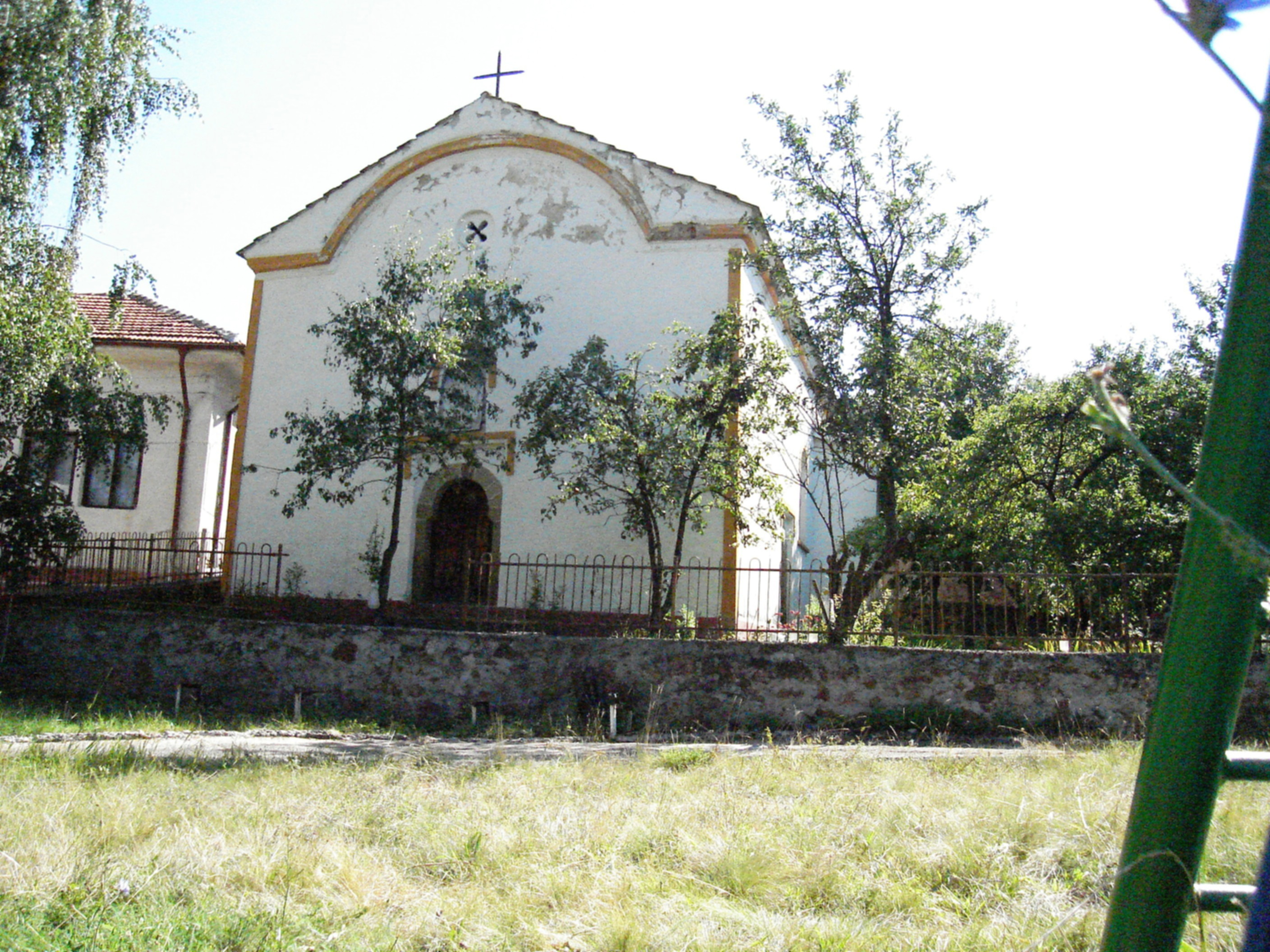 The church of village Gigintsi